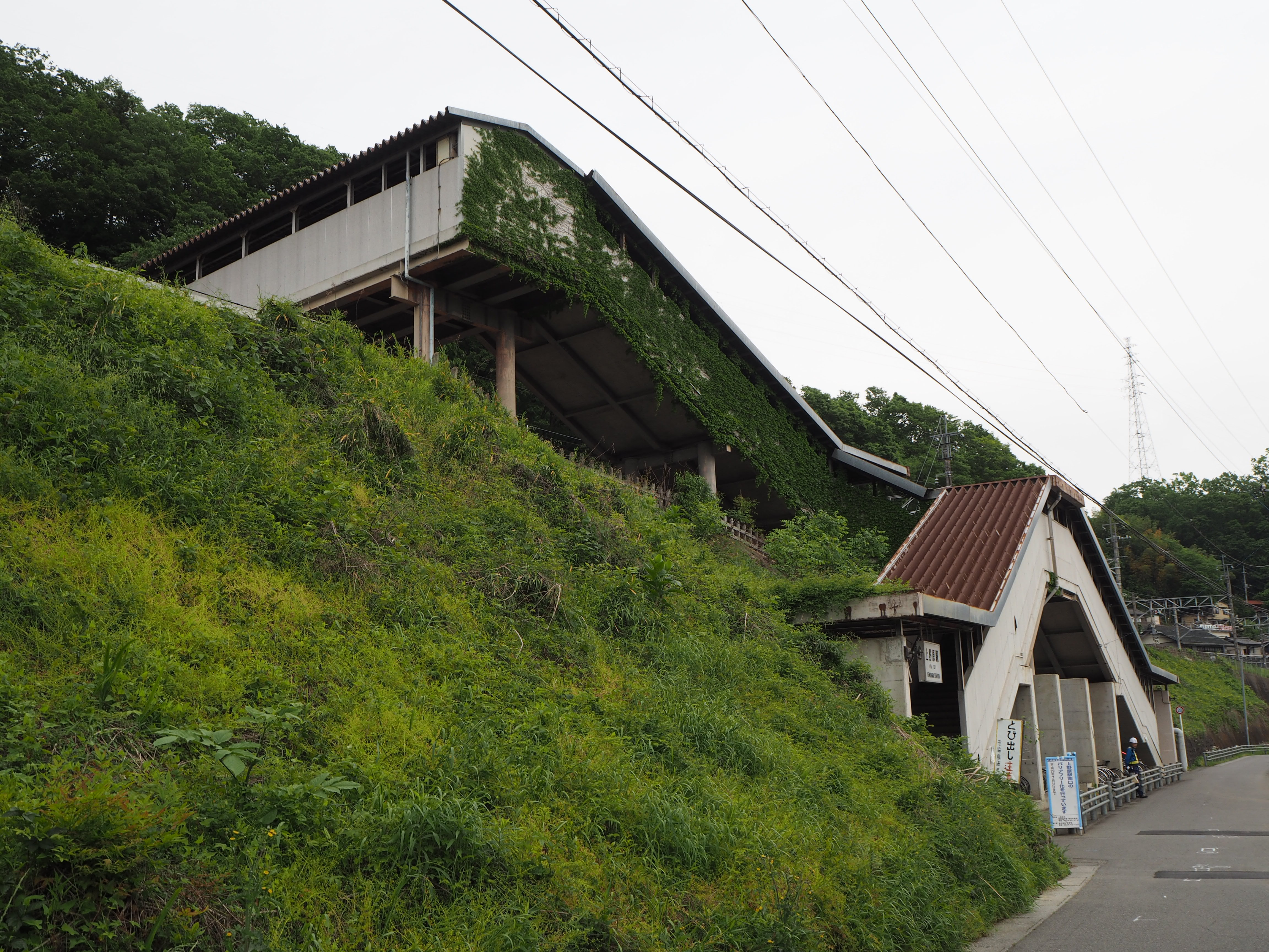 South Entrance of Uenohara Station